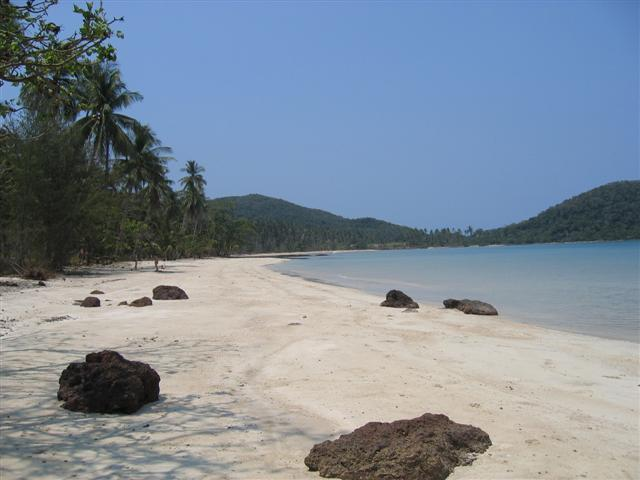 Ko Mak (island in Thailand)